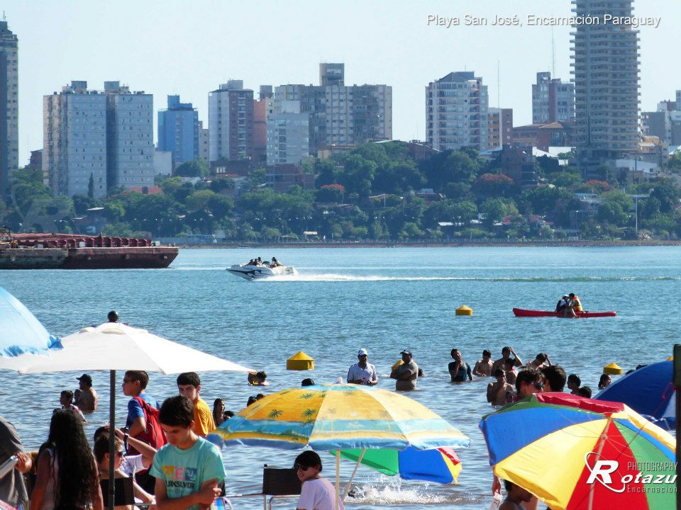 San José beach, Encarnación. Posadas, Argentina, is visible in the background.